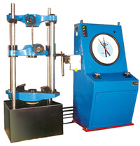 Universal Testing Machines